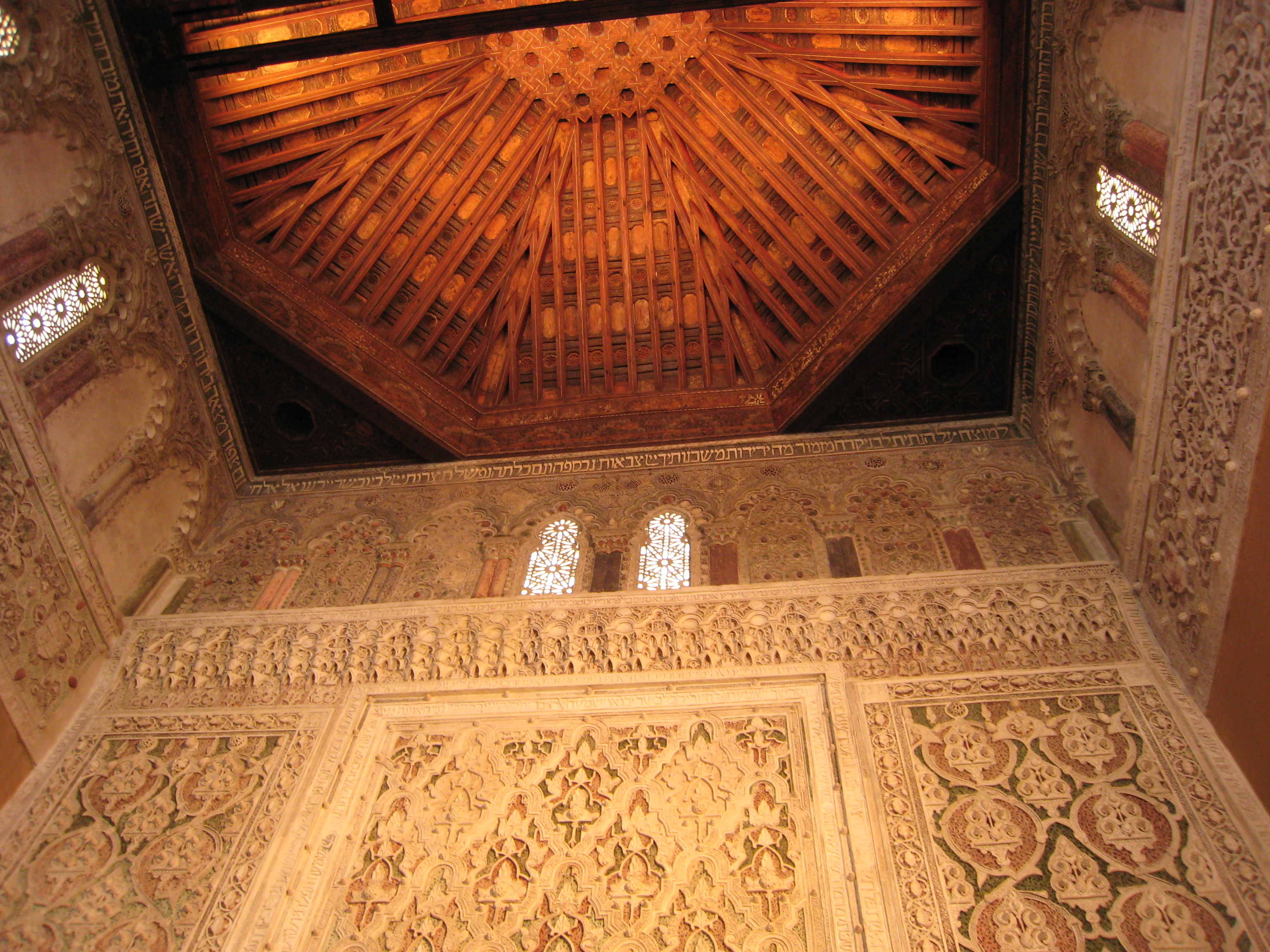 Sinagoga del Tránsito, interior decoration, Toledo (Spain)